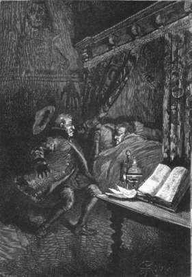 Original illustration to the novell "Frritt-Flacc" by Jules Verne (1884-86).